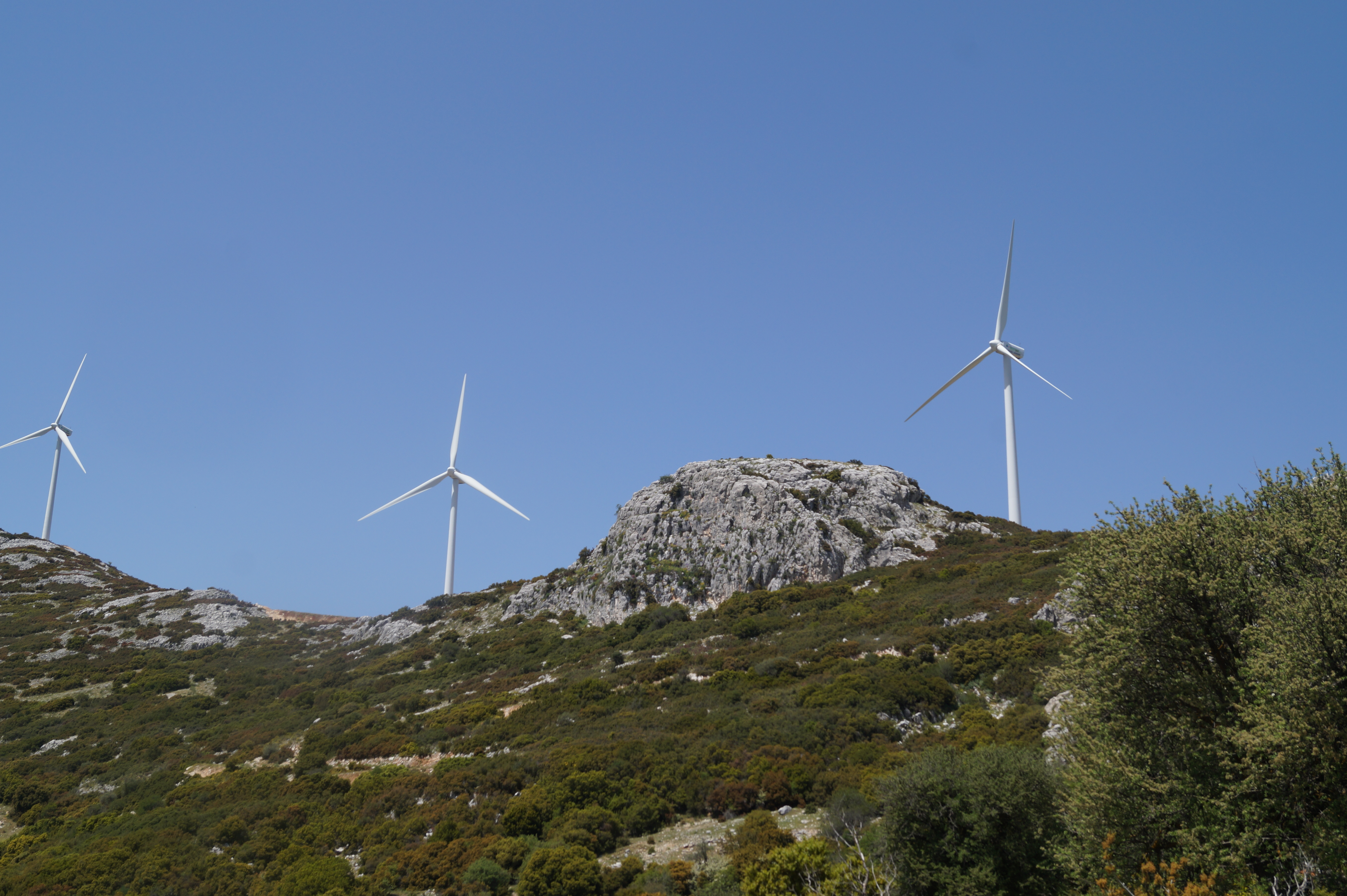 Arachneo, Argolis, Greece: View from south on the medieval fortification Gyclos on mount Skounthi (Arachneo).